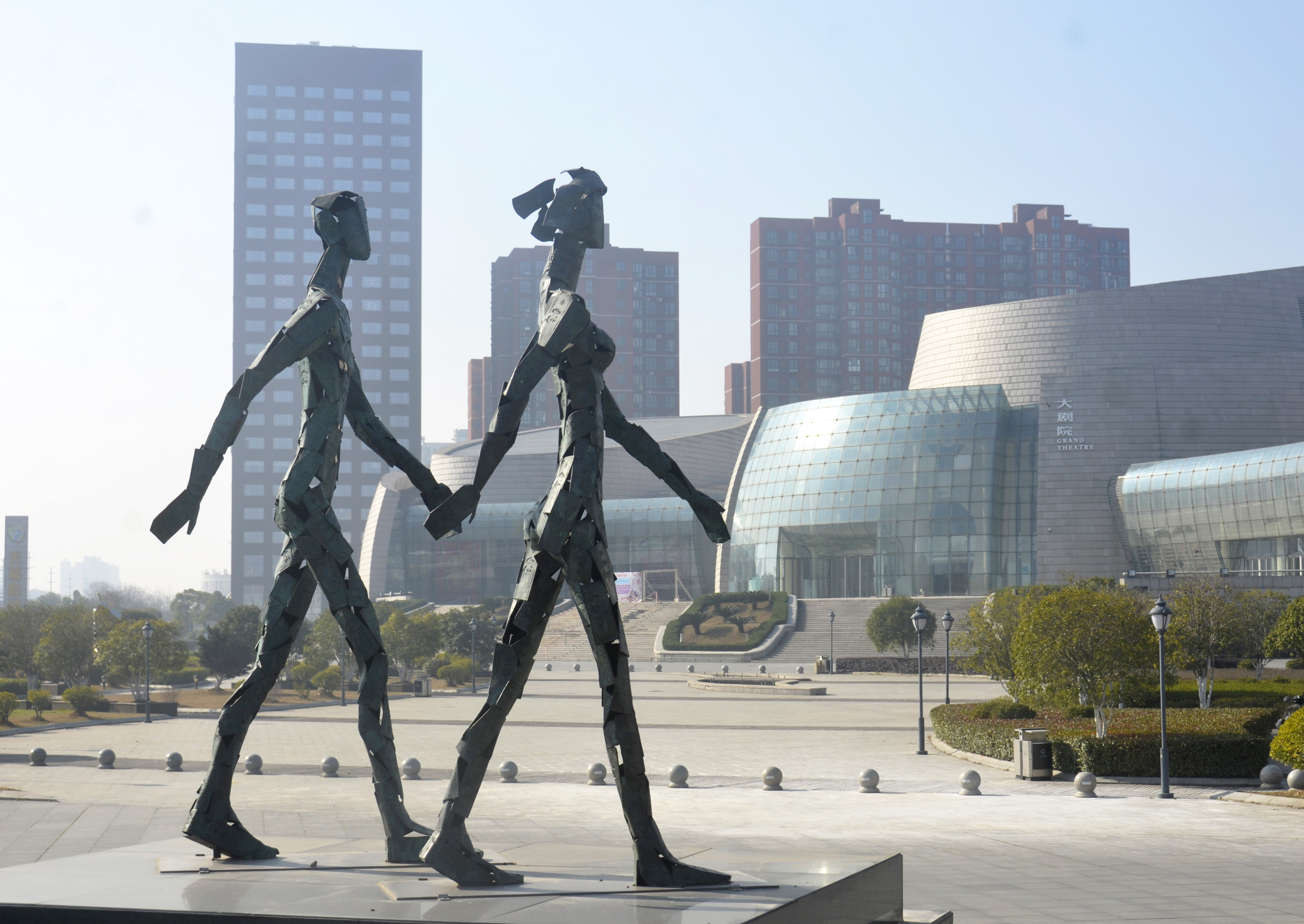 Wu Shaoxiang, Walking Wealth 2009, bronze, height 200cm, Collection of Jiang Xi Art Museum, Nanchang, China